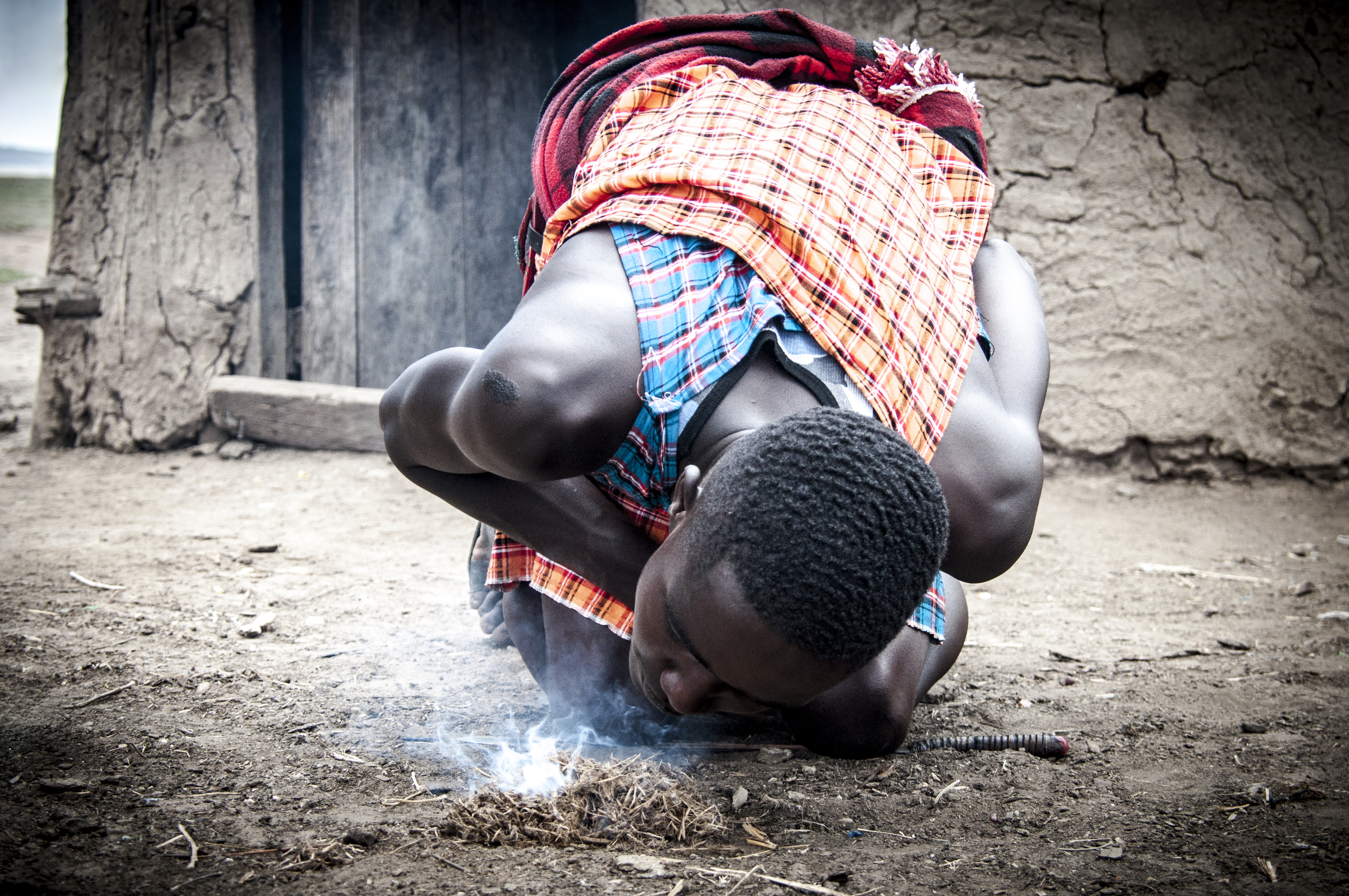 Masai warrior lighting a fire using a traditional technique, based on friction of different woods, in his local village in the Masai Mara. This is an image of "African people at work" from Kenya